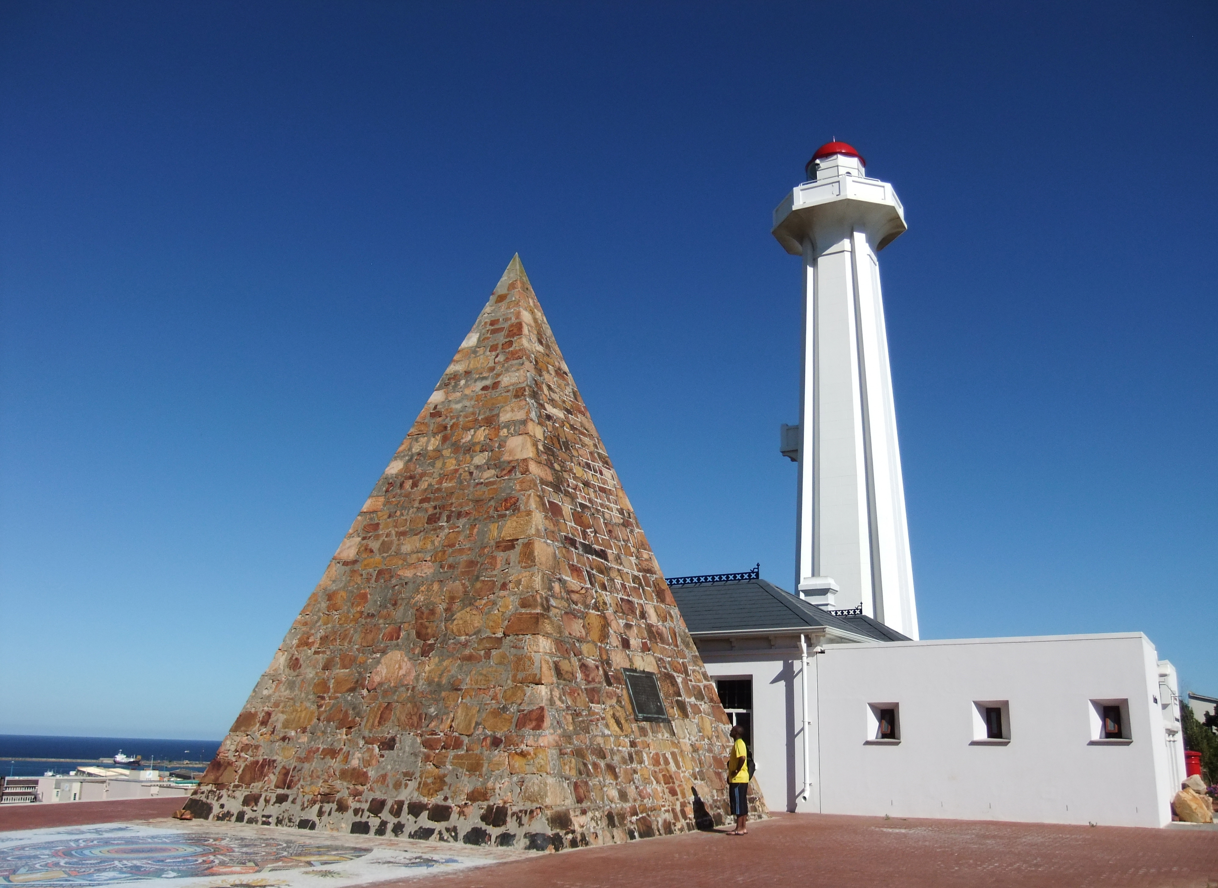 Donkin Reserve in Port Elizabeth, South Africa This media shows a South African Protected Site with SAHRA file reference 9/2/073/0005.